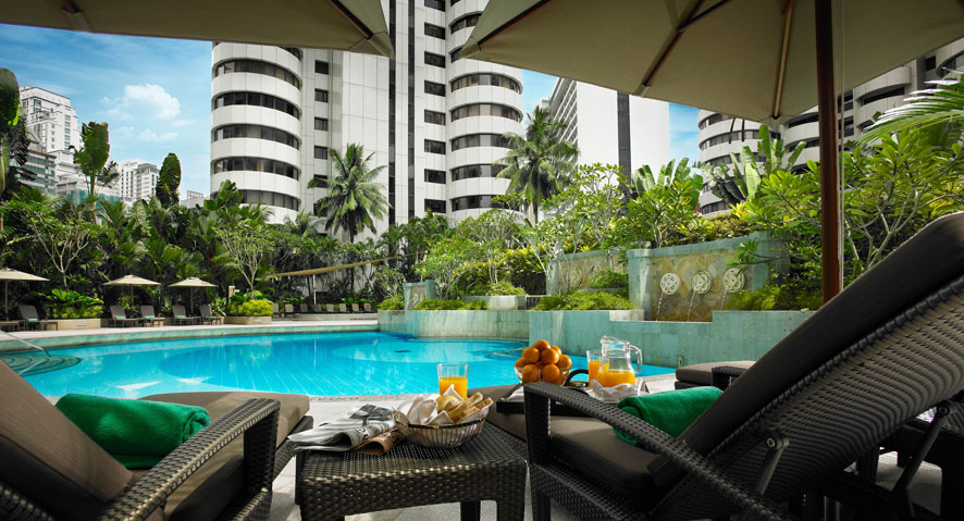 Poolside at Shangri-La Kuala Lumpur